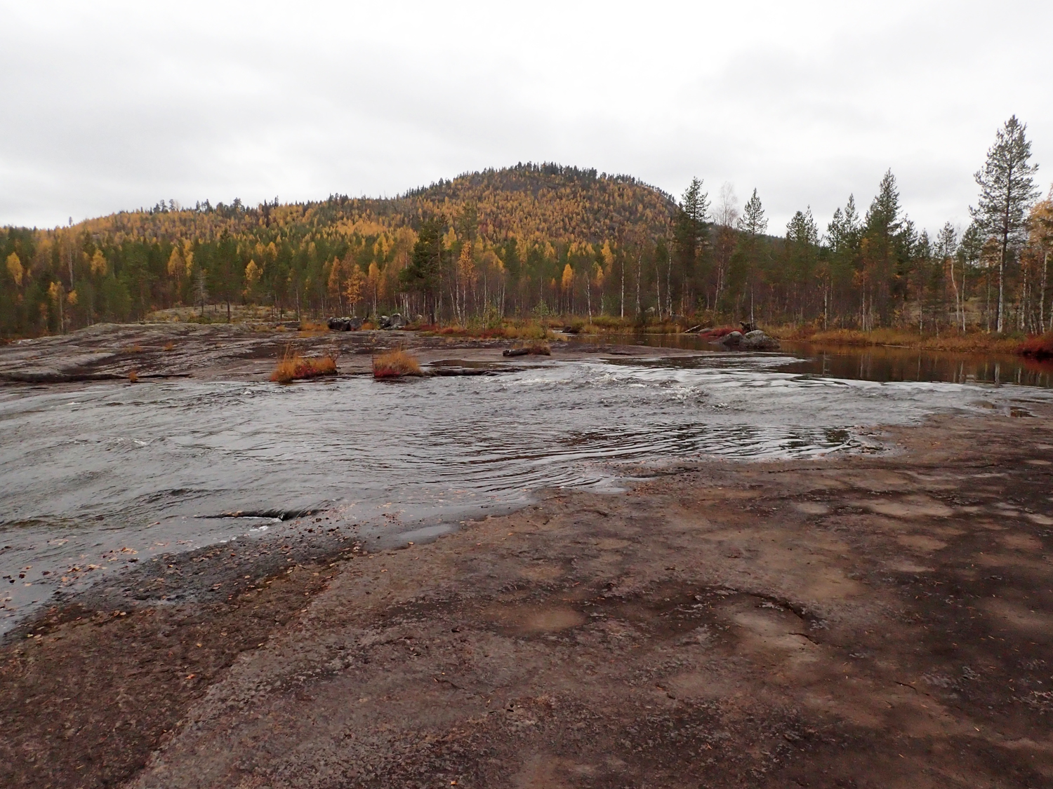 Rapids in River Lögdeälven, with the hill Bastuberget behind.